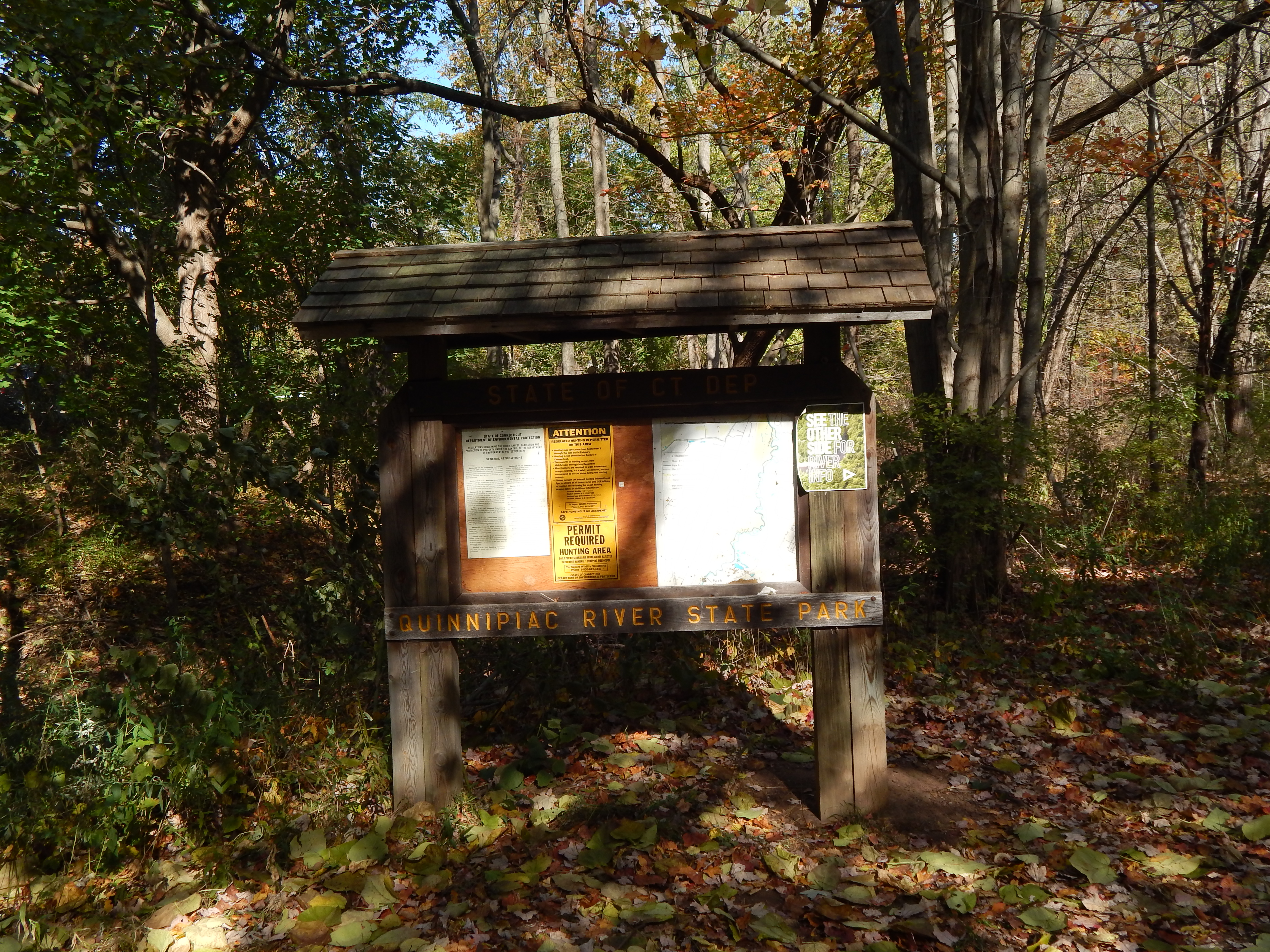 Quinnipiac River State Park, North Havern Ct